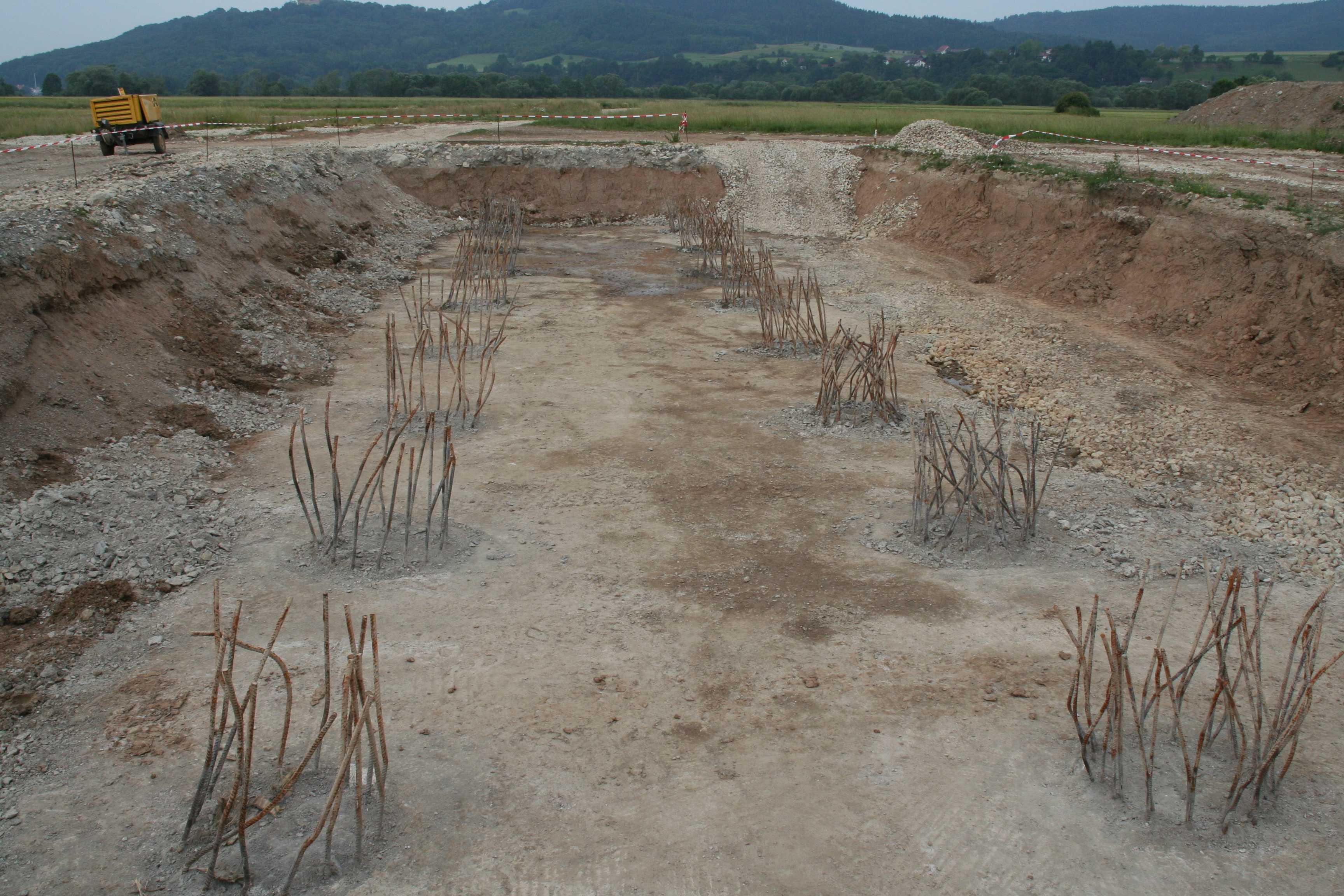 Mainbridge